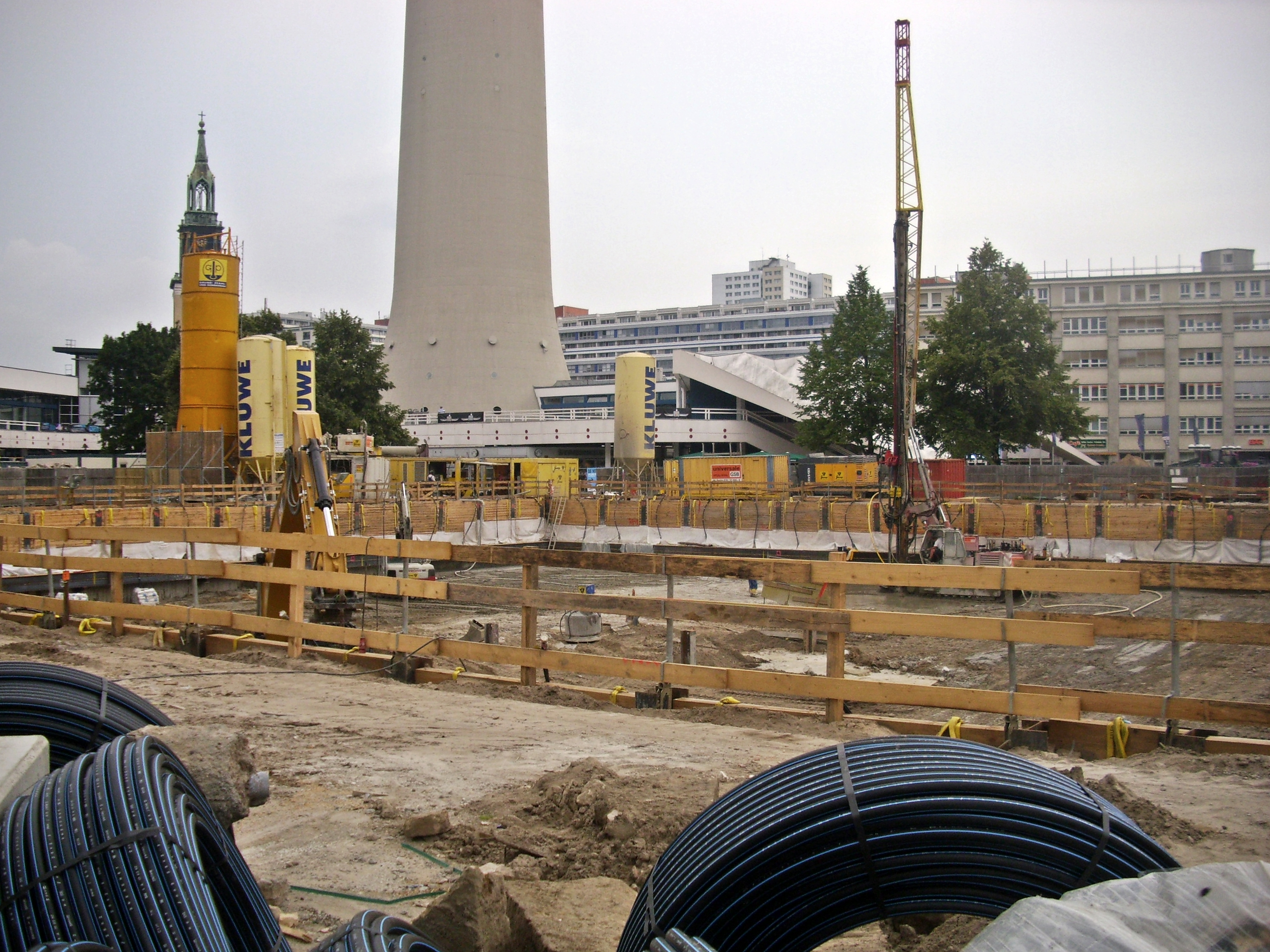 Shopping centers under construction